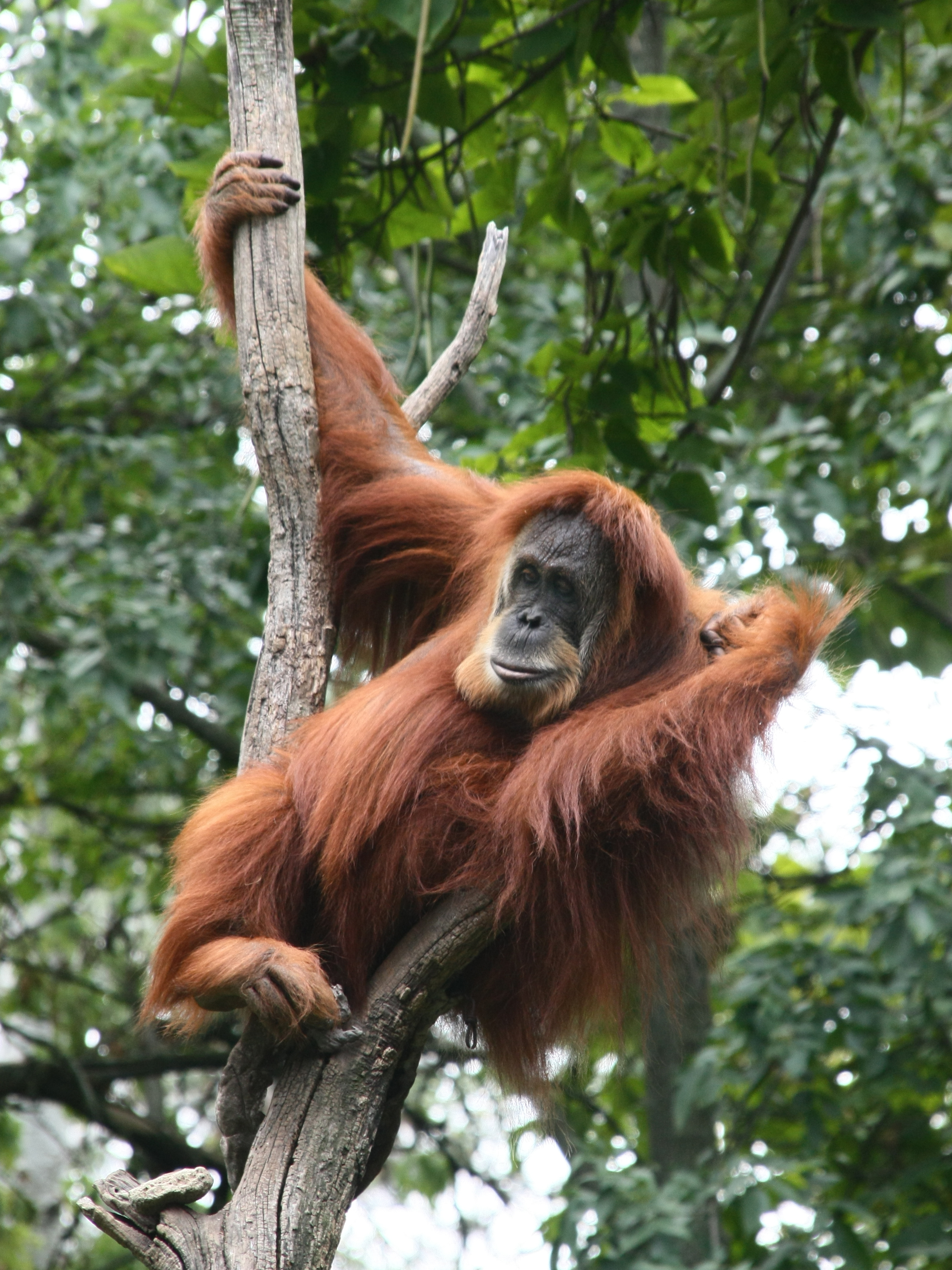 Sumatran orangutan taken at the Cincinnati Zoo.